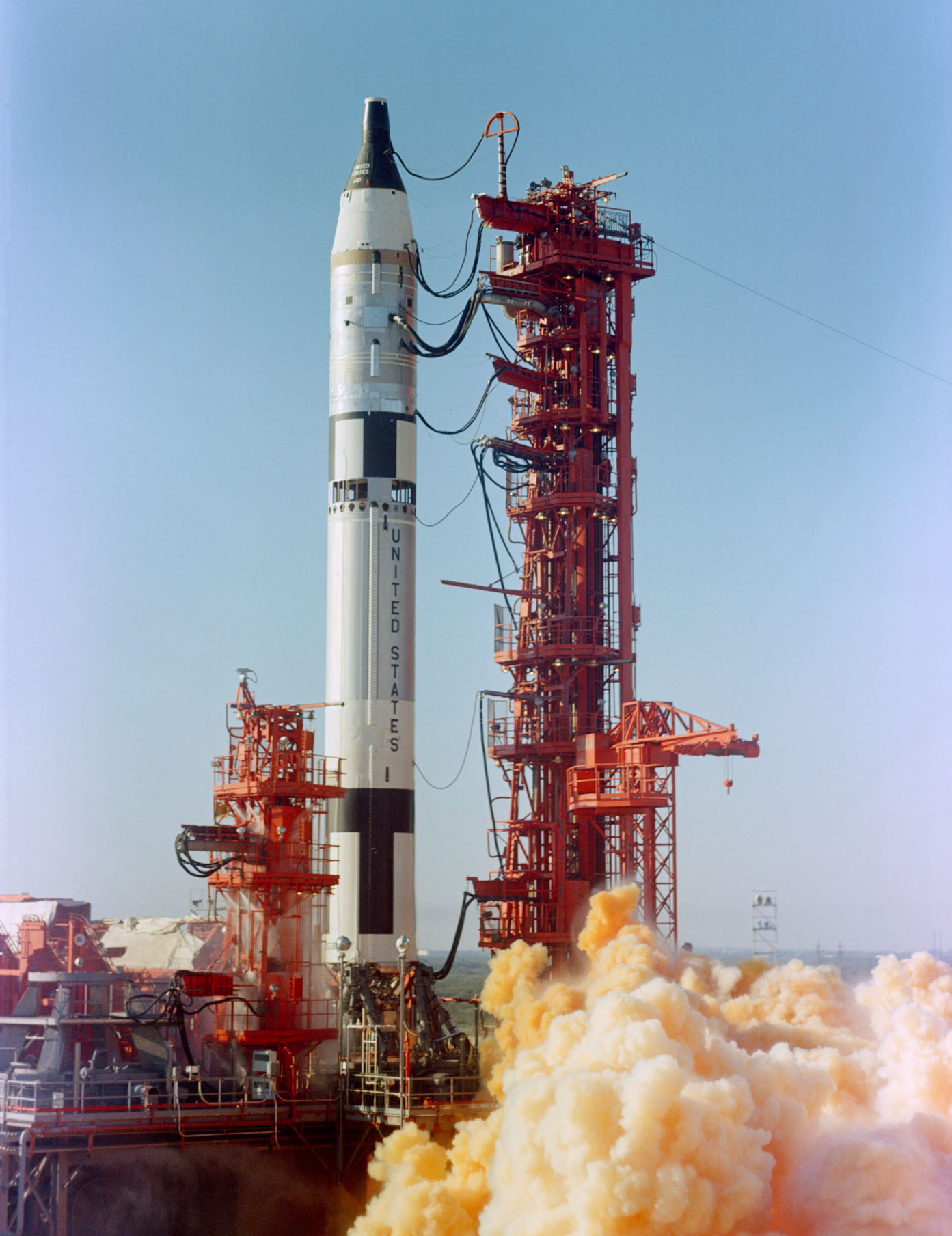 Launch view of the Gemini-Titan 3 mission. The GT-3 liftoff was at 9:24 a.m. (EST) on March 23, 1965. The Gemini-3 spacecraft "Molly Brown" carried astronauts Virgil I. Grissom, command pilot, and John W. Young, pilot, on three orbits of Earth.